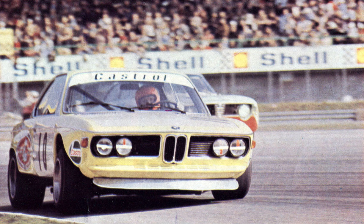 Monza (Italy), Autodromo Nazionale, March 19, 1972. Belge motor racing driver Alain Peltier on a BMW 2800 CS of S.A.L.A. Précision Liegeoise, sponsored Castrol, at the 1972 Monza Touring Car 4 Hours — "Mario Angiolini" Trophy.